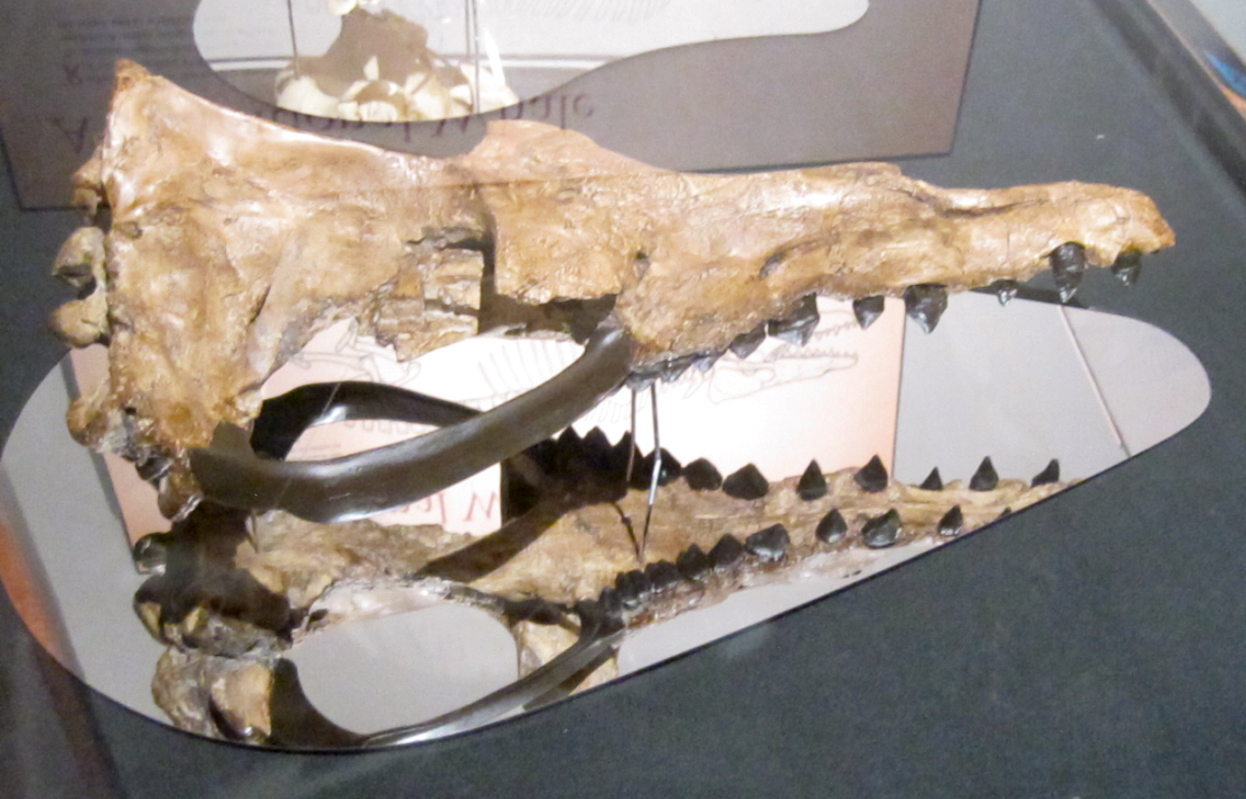 Rodhocetus looked more like today's whales than Pakicetus did: Notice: ? nose partway up the snout ? simple teeth used to catch and swallow fish These whales were partially adapted to life in the water, with short legs they might have used to waddle about on land ? like sea lions do today. --Scientist Philip Gingerich